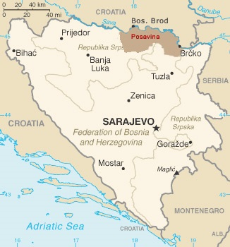 Location of Bosnian Posavina